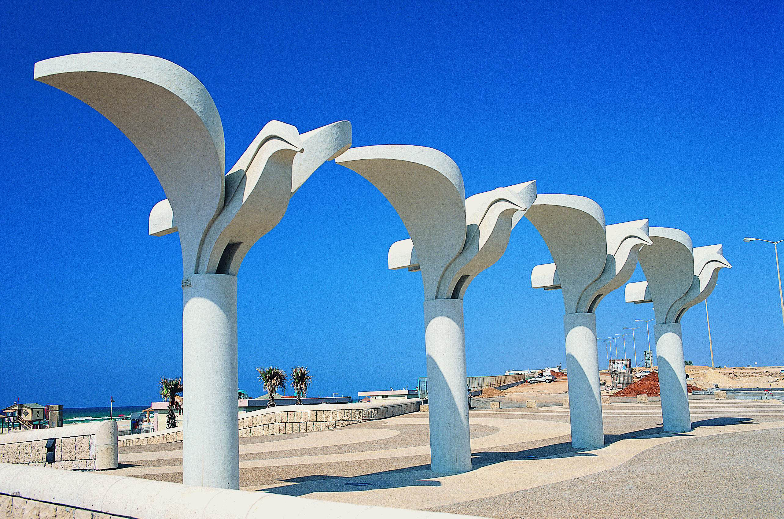 שערי הכניסה לטיילת, 4 פסלי עופות מסוגננים היוצרים שערי קשתות. הפסלים בגובה 4.5 מ' ויצוקים מחומרים פולימרים